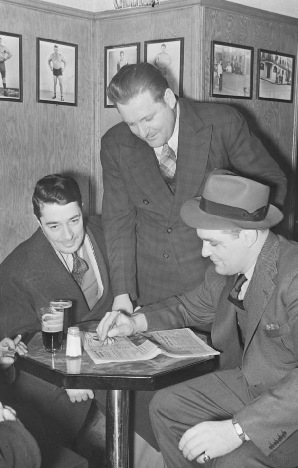 Yvon Robert, professional wrestler, and two customers tavern respond to a questionnaire on the hockey appeared in a newspaper. This tavern is located at the corner of St. Gabriel and St. Jacques in western Montreal. We notice many photographs of the wrestler on the wall.